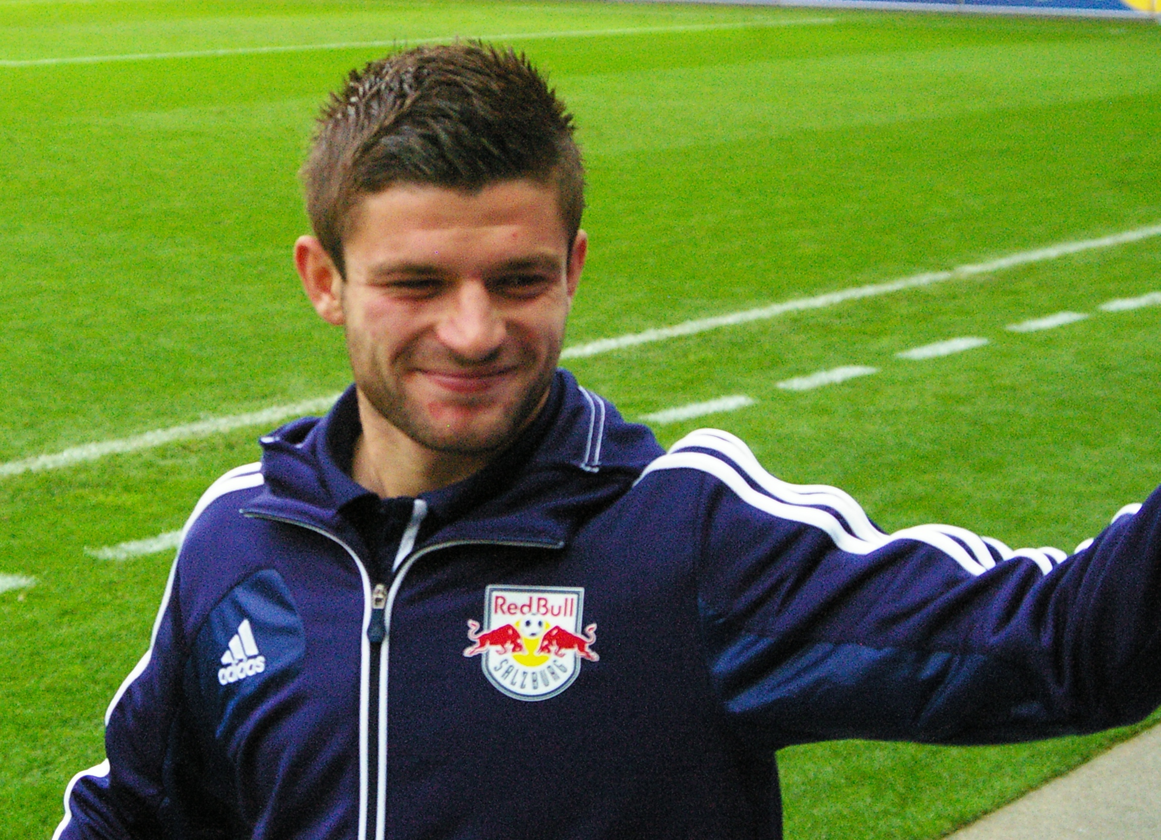 league match 2012